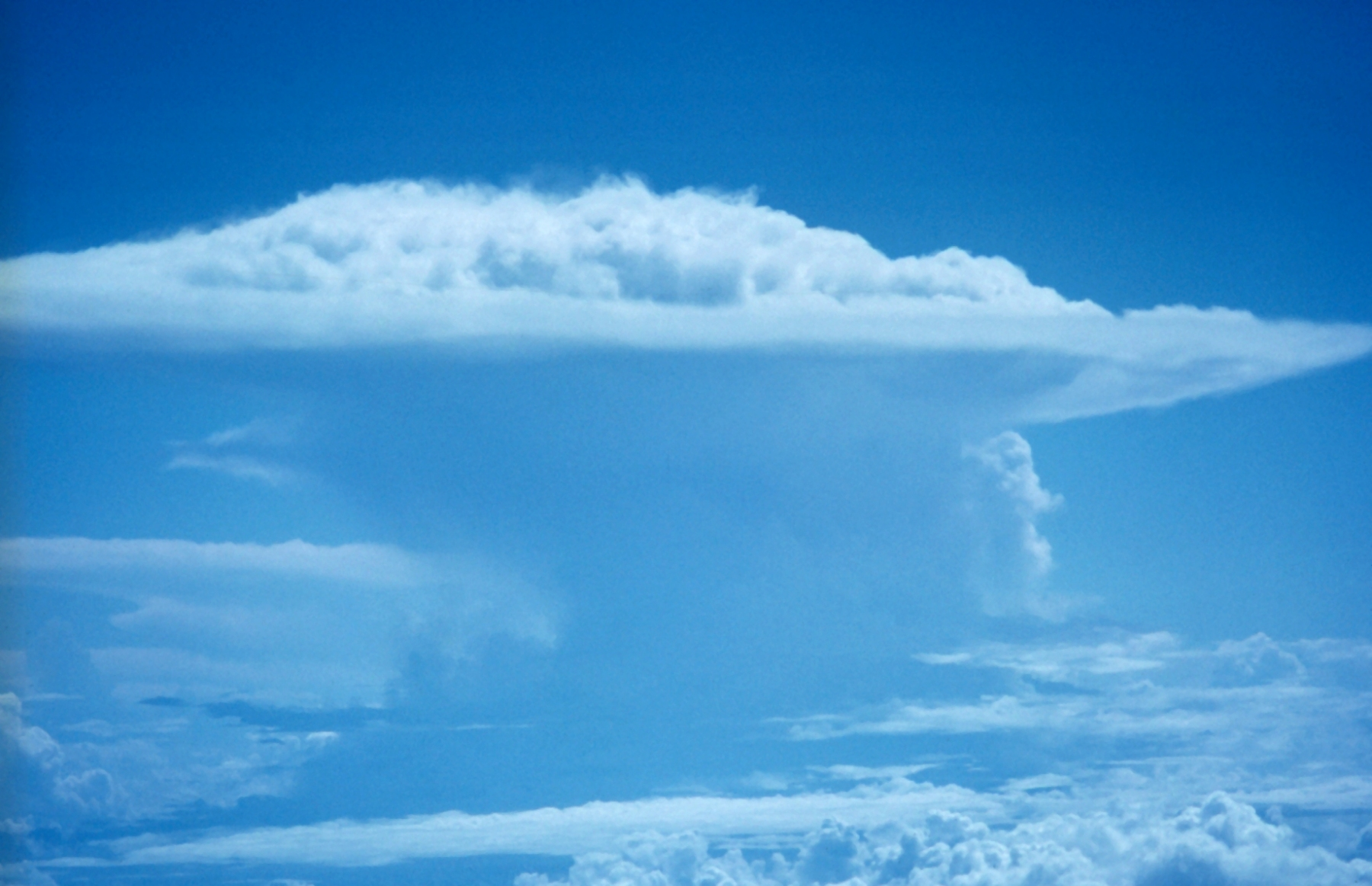 The perfect thunderstorm as observed from C130 research aircraft during Project Cement #1.